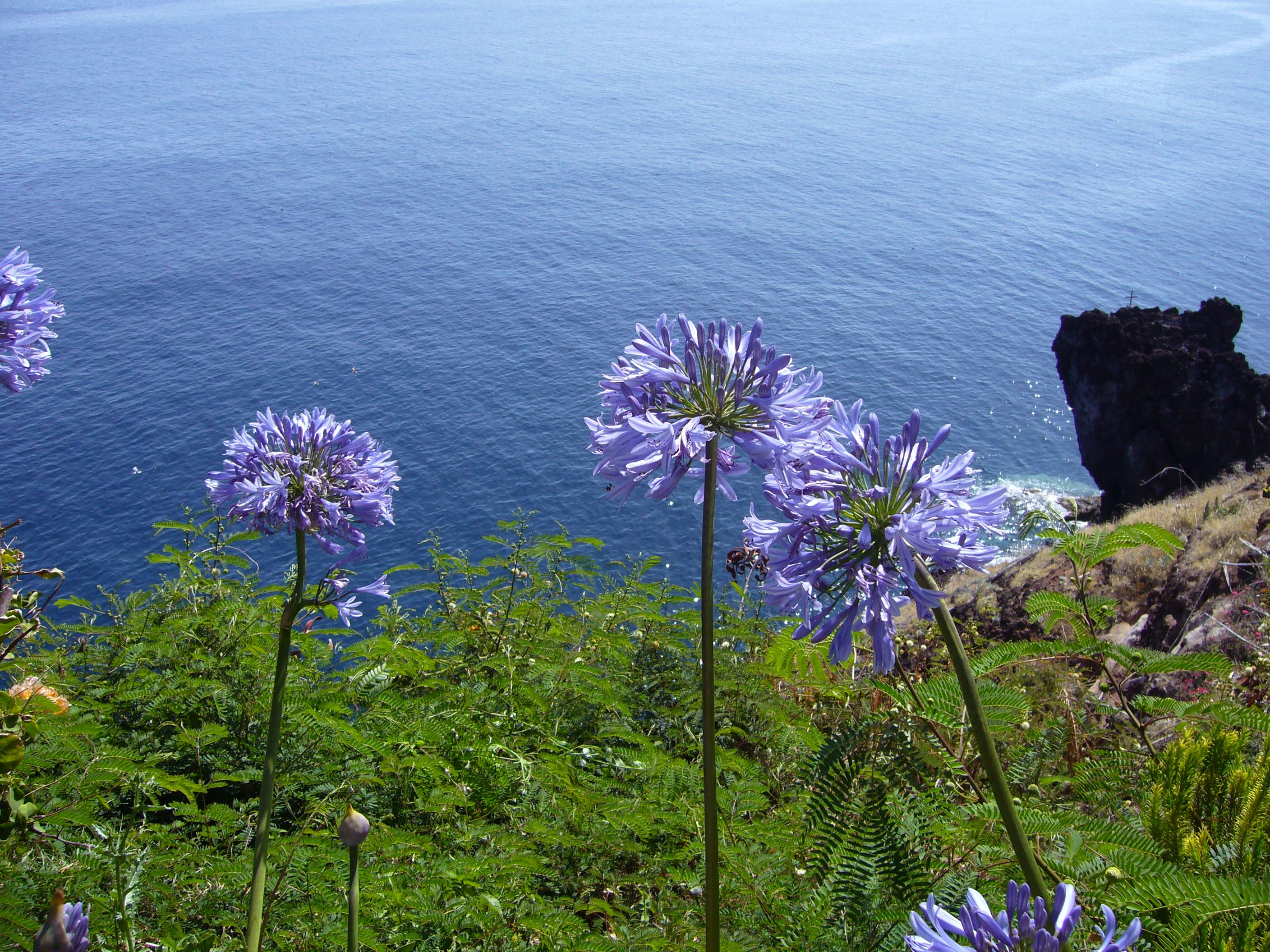 Agapanthus praecox blue at the seashore in Funchal, Madeira